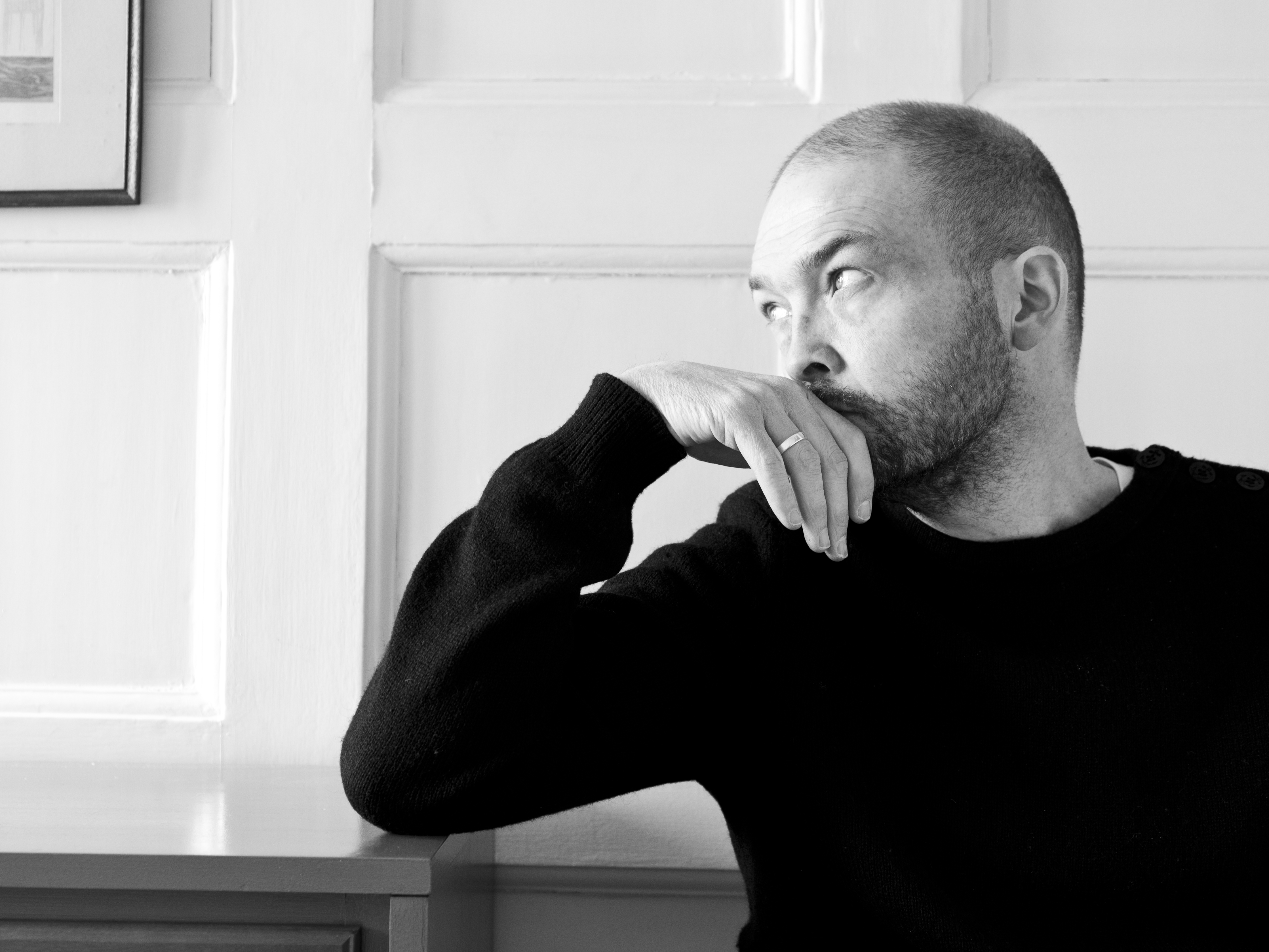 Ben Watt, a British musician, DJ, record producer and radio presenter.